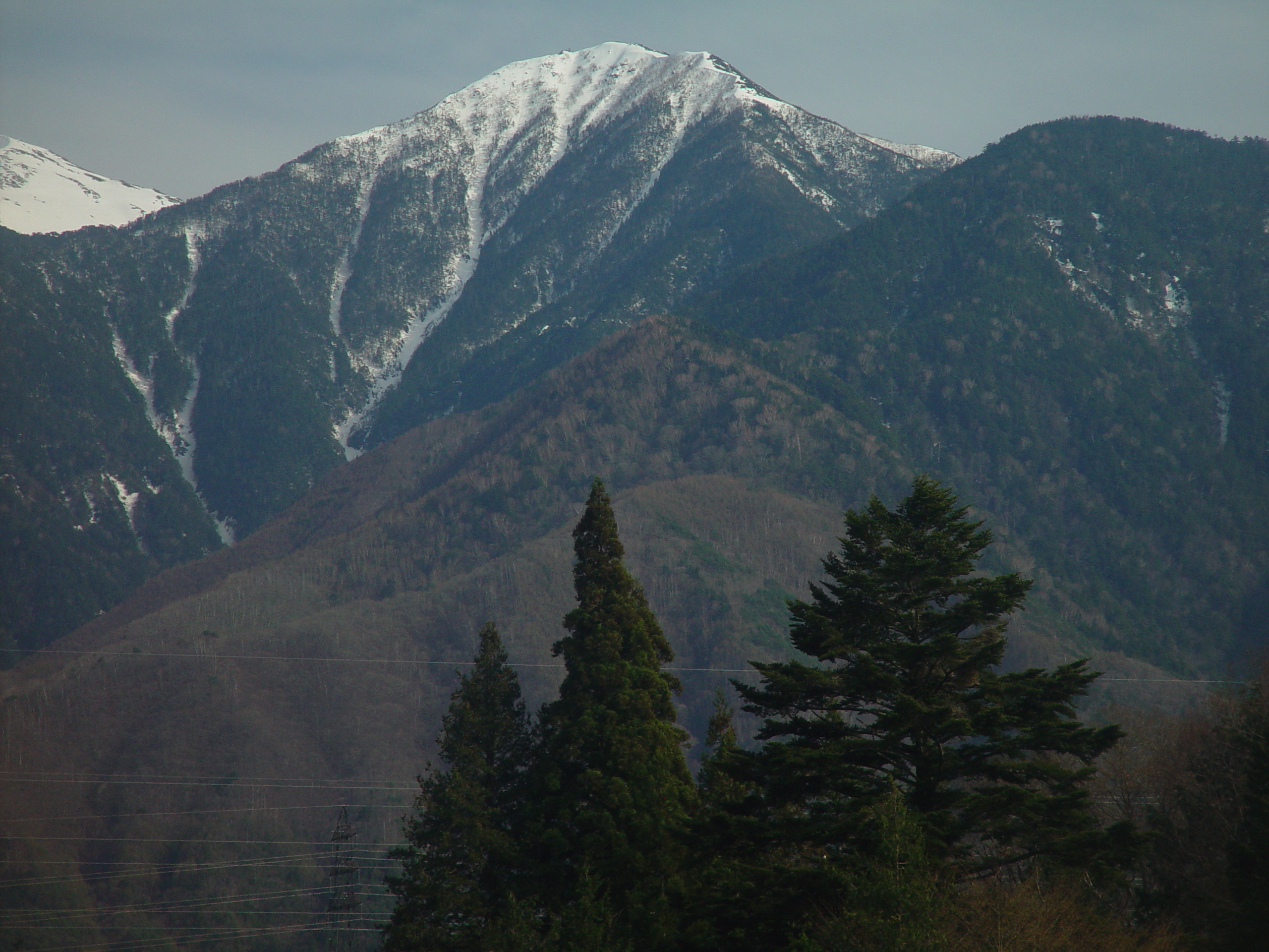 Mount Mugikusa (Kiso Mountains) seen from Kisokomakogen, Kiso Town, Nagano Prefecture, Japan.